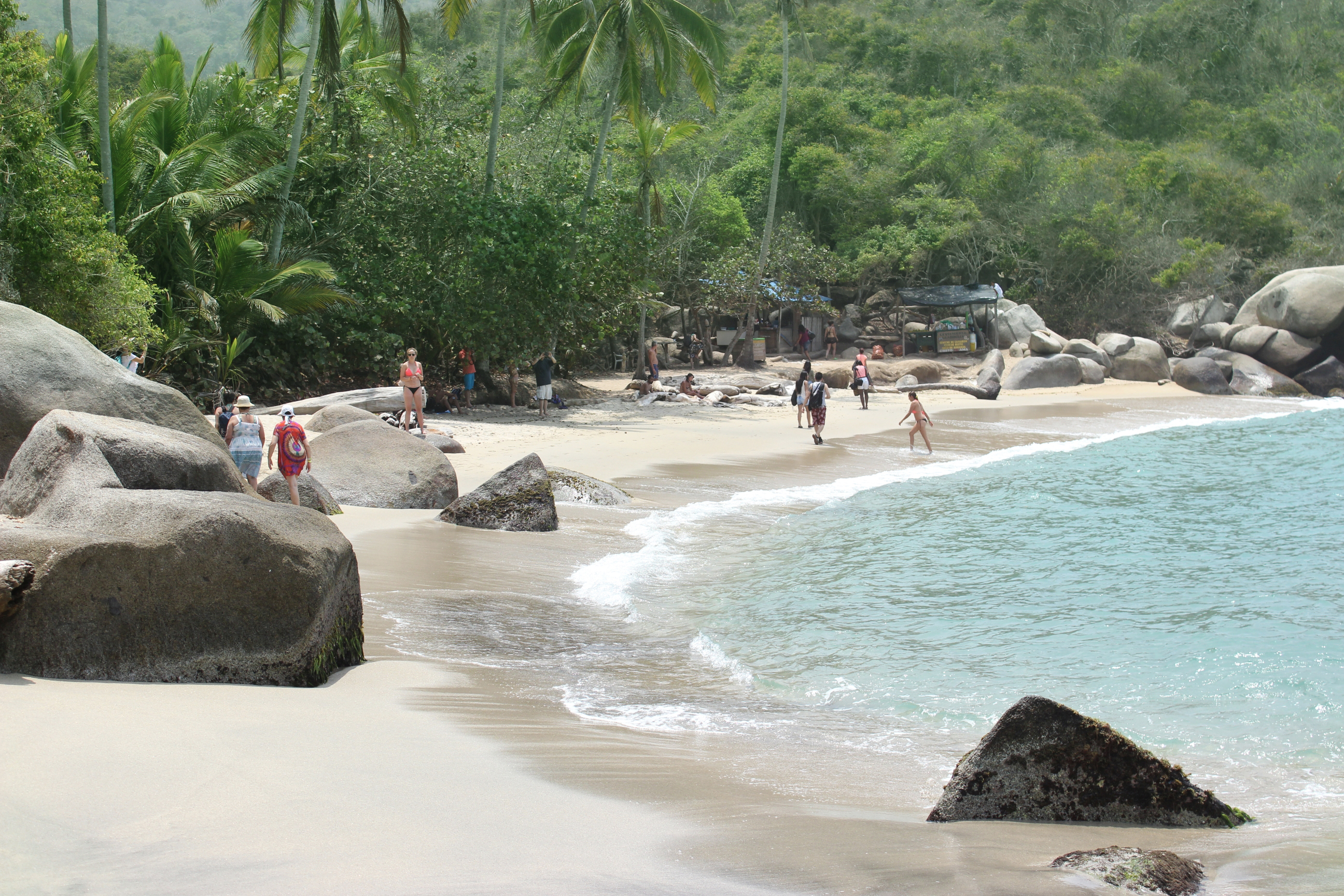 Cabo San Juan beach in Tayrona National Park, Colombia. photo by adventourscolombia